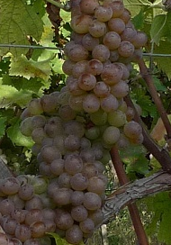 Cropped version of Commons File:Baratuciat Vendemmia 2013.jpg by User:Ffalca released under Creative Commons Attribution-Share Alike 3.0 Unported